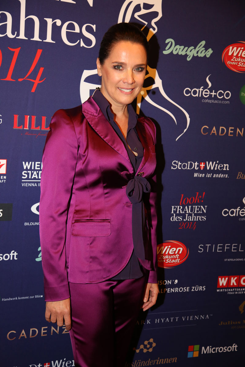 Luxembourgian actress and television presenter Désirée Nosbusch at the 2014 Look! magazine Women of the Year awards in Vienna.